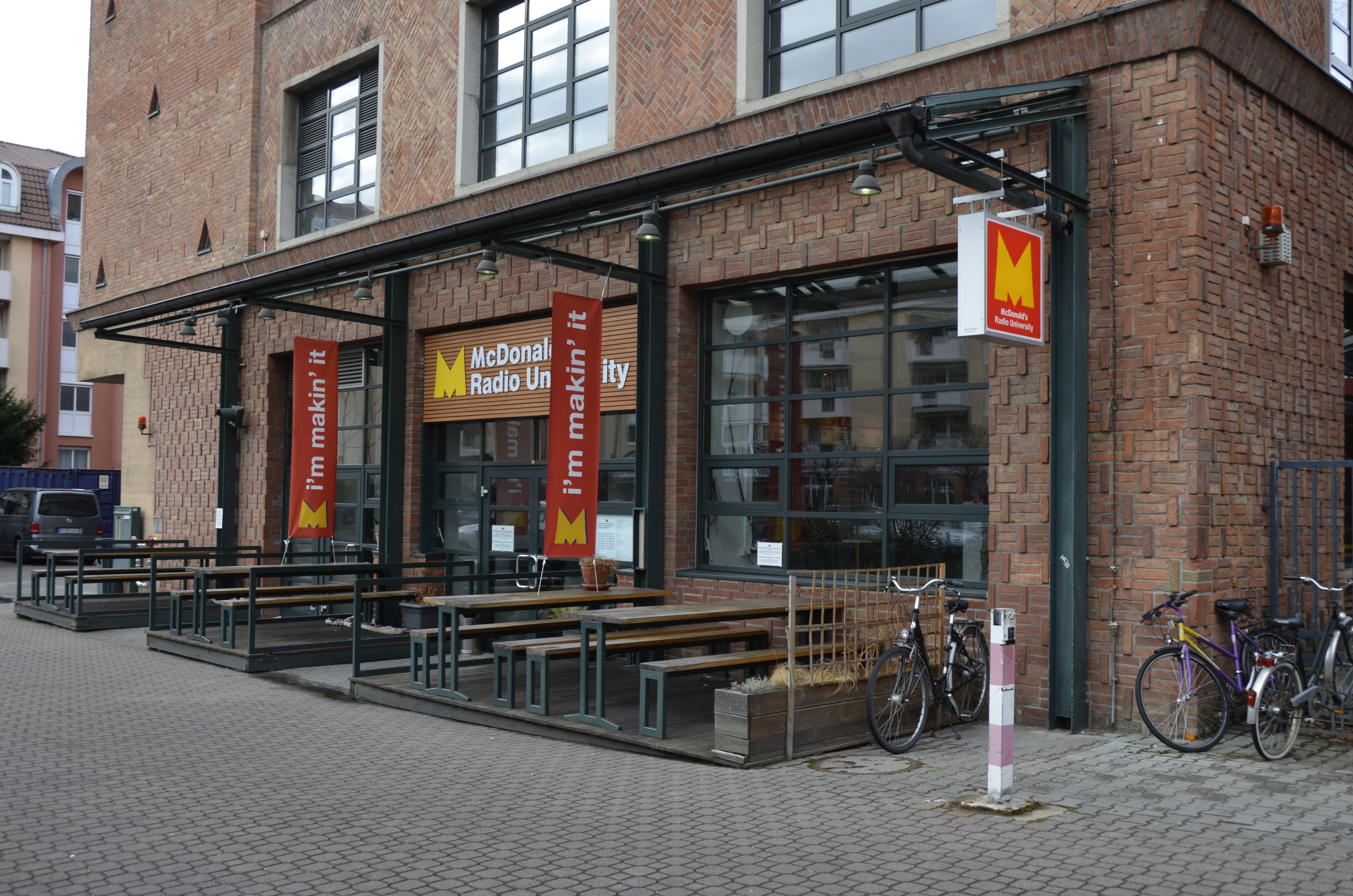 Akira Takayama during the press conference of McDonald’s Radio University.